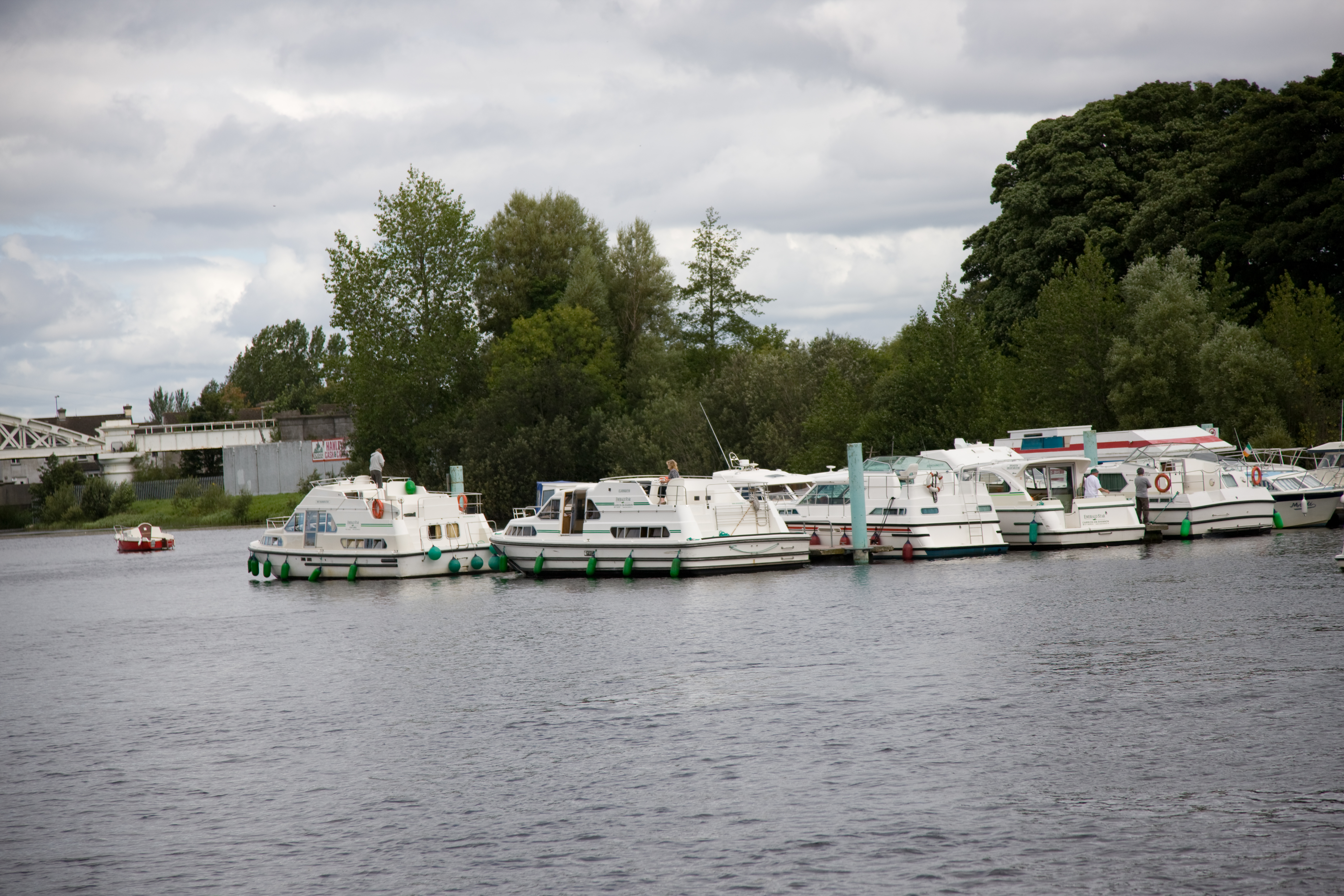 Waterways Ireland is the navigation authority for over 1000km of inland waterways in Ireland, namely the Shannon-Erne Waterway, the Erne System, the Grand Canal, the Barrow Navigation, the Lower Bann Navigation, the Royal Canal and the Shannon Navigation. The Waterways Ireland Office of the Inspectorate of Navigation is responsible for enforcing the navigational bye-laws, maintaining a register of vessels and carrying out inspection and monitoring of Waterway's Ireland harbours and jetties to ensure that they are used and kept in a safe and responsible manner. The Inspectorate carry out regular patrols of the waterways by road and water. Any irresponsible behaviour or poor boatmanship encountered is immediately brought to the attention of the owner of the craft. Craft speeding within speed restriction areas are similarly dealt with. The Waterways Ireland Inspectorate of Navigation is happy to advise boat users on navigational matters and provide information on boat registration and the bye-laws. The Inspectorate of Navigation can be contacted at +353 90 6494232 (Athlone) or +44 28 66322836 (Enniskillen). As an aid to boat and craft owners, Waterways Ireland has produced a "Good Boating Guide" which includes guidelines on operating craft on Waterways Ireland's Navigations. This guide is available to download free of charge from the "Safety on the Water" section of the Waterways Ireland website at or by calling the Marketing and Communications Division of Waterways Ireland at +44 28 66346219 (Enniskillen) or +353 71 9650787 (Carrick on Shannon).